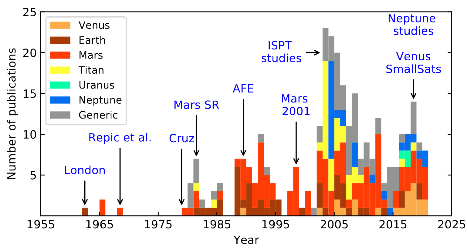 Histogram showing the number of publications addressing aerocapture, classified by target planet. Major sources: AIAA, IEEE, NASA NTRS, ESA Publications, JPL publications. Data compiled on March 13, 2020. Dataset used to will be made image is available at